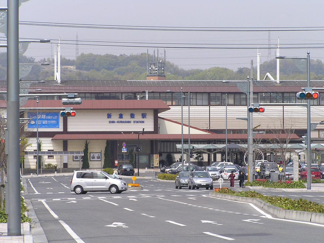 Shin-Kurashiki Station get a distant view (Okayama prefectural road No.41)